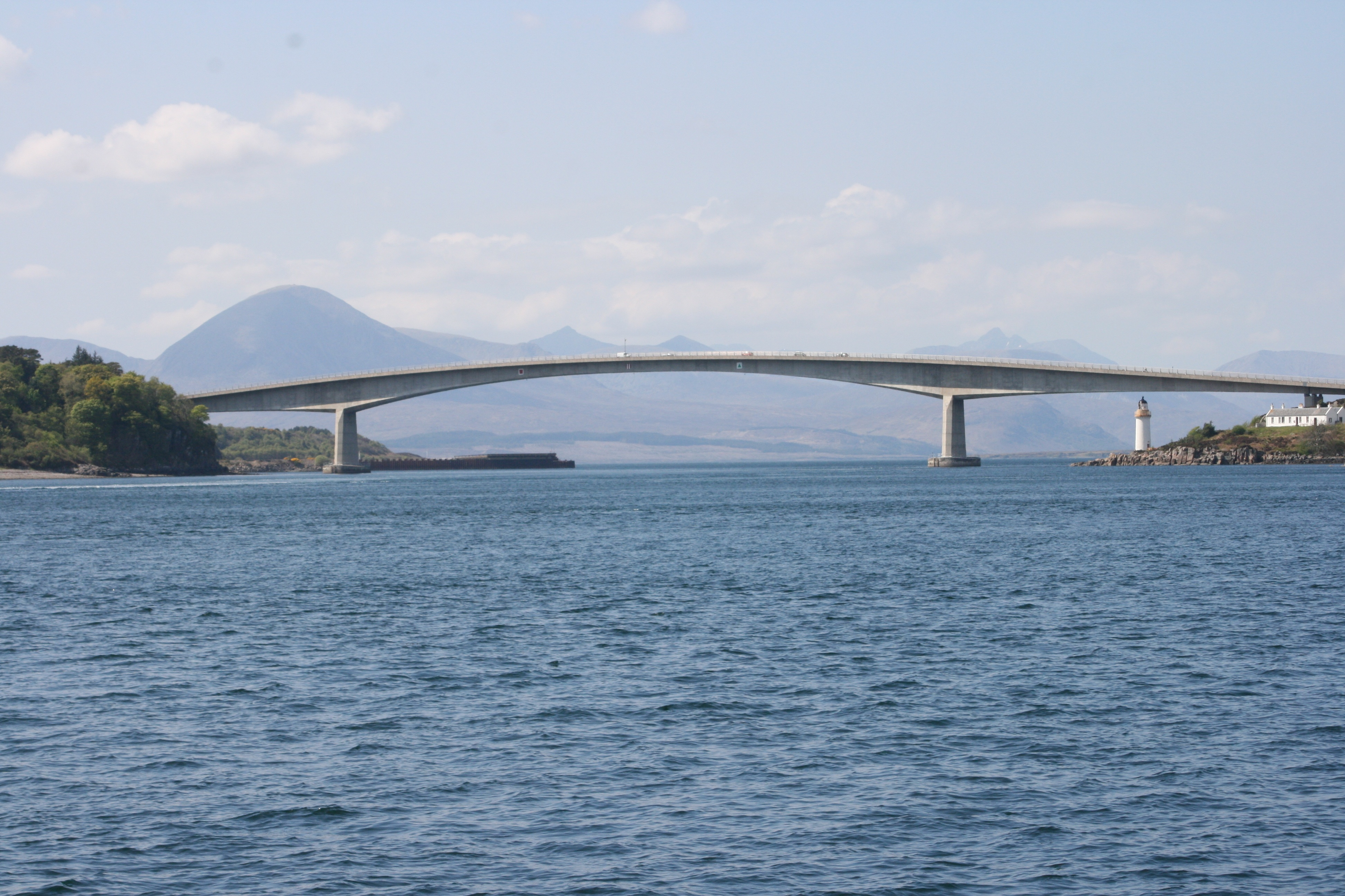 Skye Bridge.